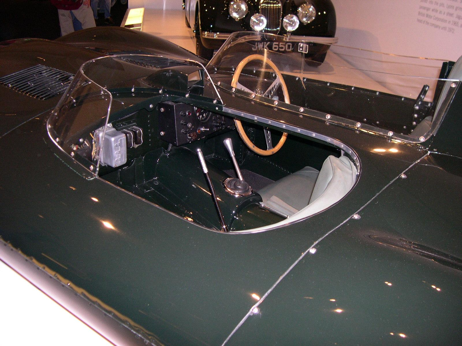 1955 Jaguar XKD from the Ralph Lauren collection on display at the Boston Museum of Fine Arts.